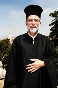 Prominent priest of the Byzantine rite of the Italo-Albanian village of Contessa Entellina (PA) in Sicily, involved in social and scholar of the Albanian lenguage and the tradicional Byzantine chant of the historical Albanian community of Italy.